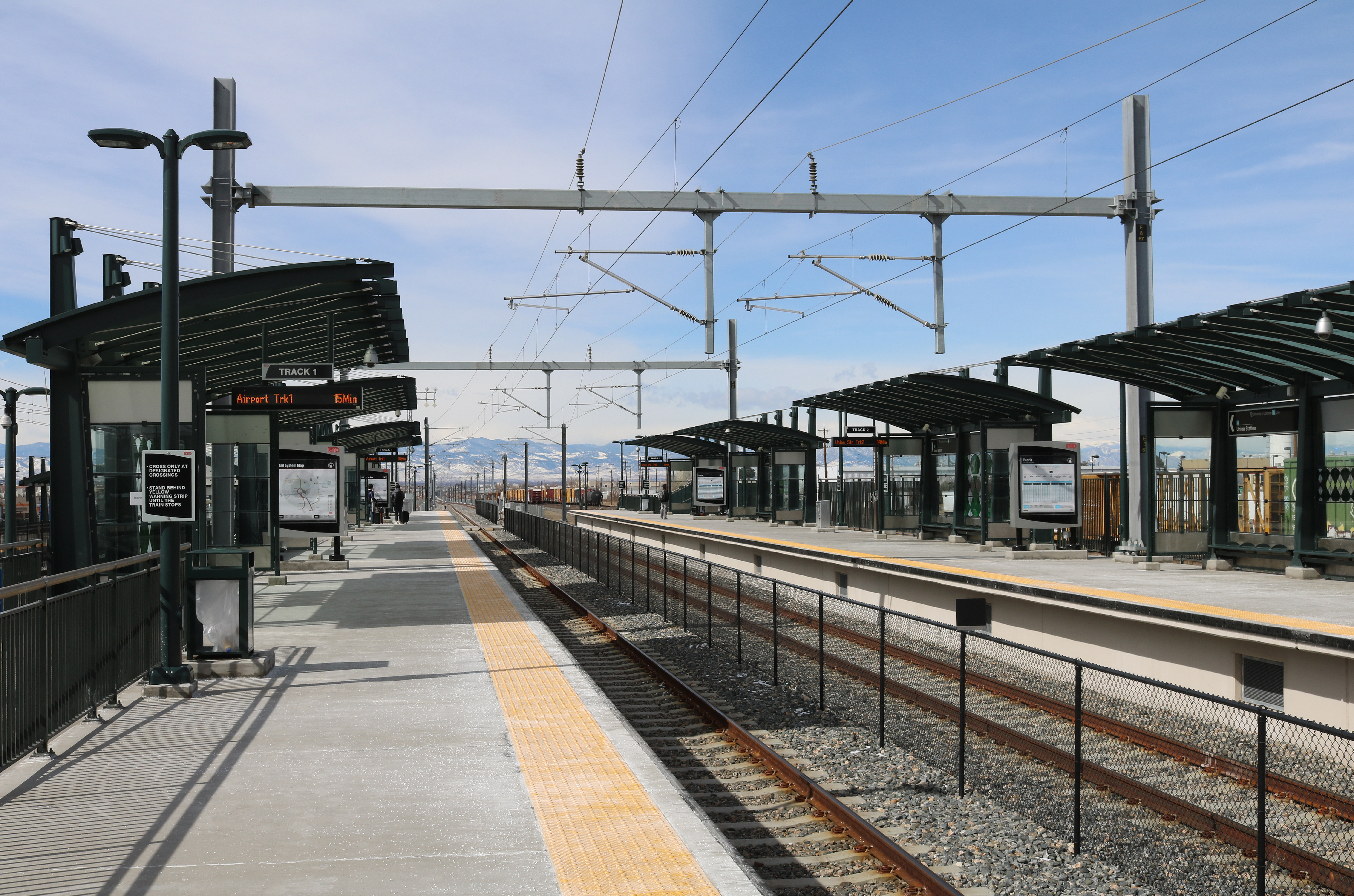 The RTD A-Line Peoria Station, located at 11501 East 33rd Avenue in Aurora, Colorado.